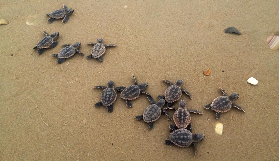 "Whoa, dude...these are sea turtles man!" That's right! These are actually threatened loggerhead sea turtles found on the beach in Core Banks, NC. While these were photographed in North Carolina, back in July 2013, the USGS provided new research with regards to sea turtles in northern Gulf of Mexico challenging a widely-held view that sea turtles remain near one beach throughout their nesting season. The research indicated that threatened loggerhead sea turtles in the northern Gulf of Mexico can travel distances up to several hundred miles and visit offshore habitats between nesting events in a single season, taking them through waters impacted by oil and fishing industries. This suggests that the threatened species may require broader habitat protection to recover. Learn more at Photo Credit: Dawn Childs, USGS